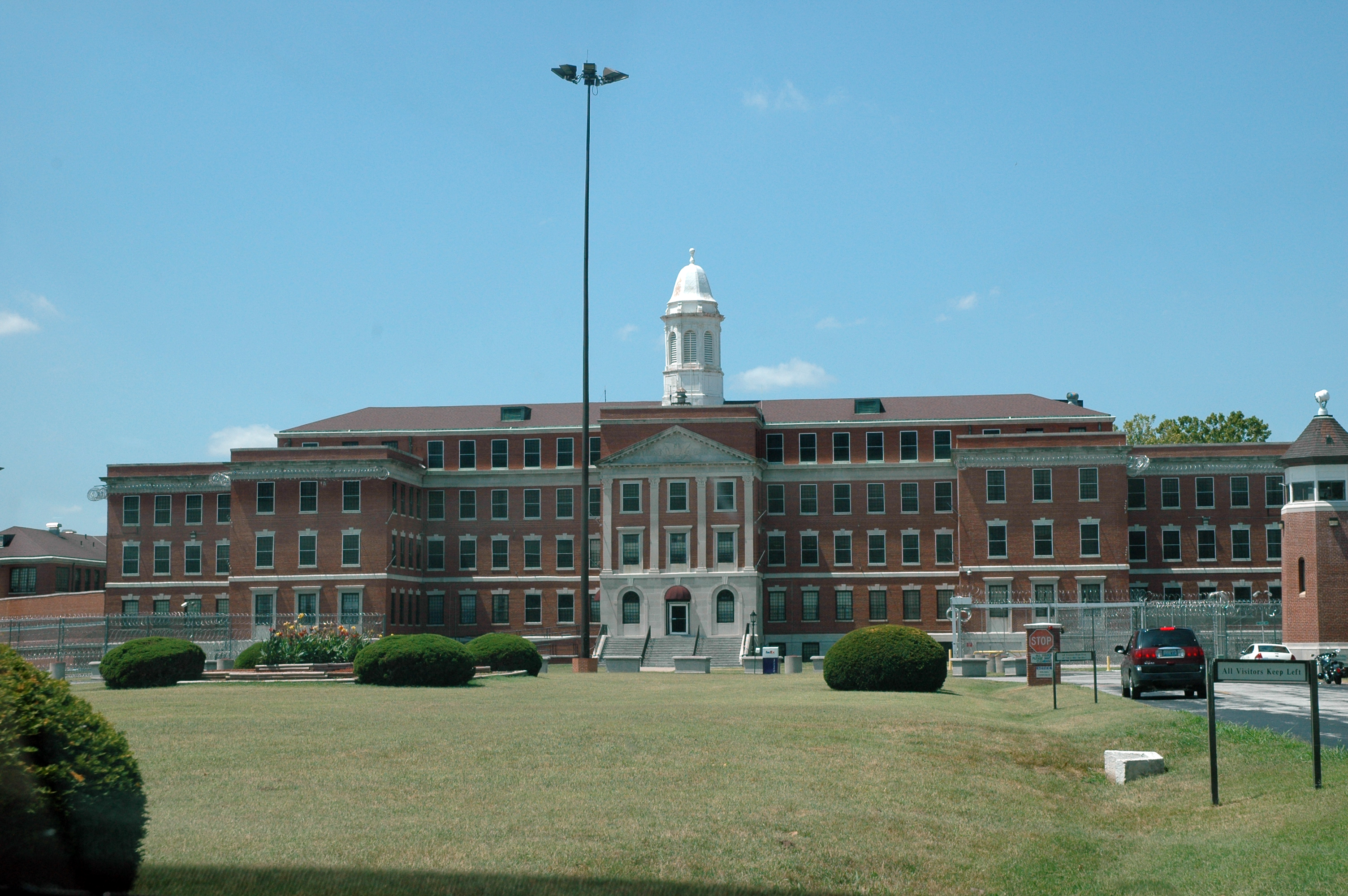 The main building of the United States Medical Center for Federal Prisoners